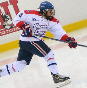 Northeastern 4, UMass Lowell 1